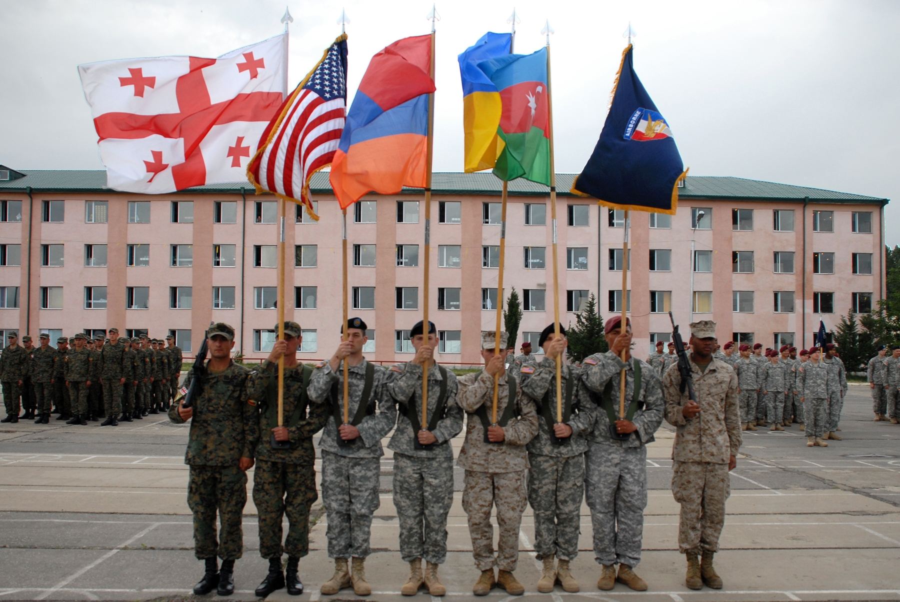 Color guard members display the flags of the nations participating in exercise Immediate Response at the exercise's opening ceremony at the Vaziani Training Area, Republic of Georgia, July 15. Military personnel from the U.S., Georgia, Armenia, Azerbaijan and Ukraine are taking part in the exercise.